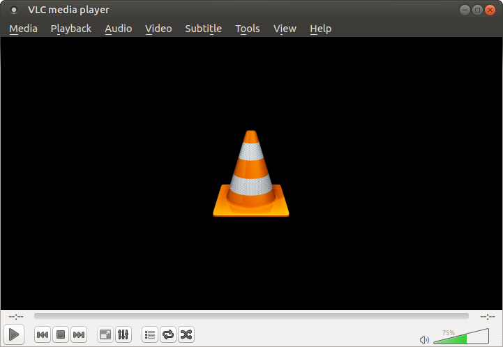 A screenshot of VLC Media Player 2.1.6 running under Ubuntu MATE